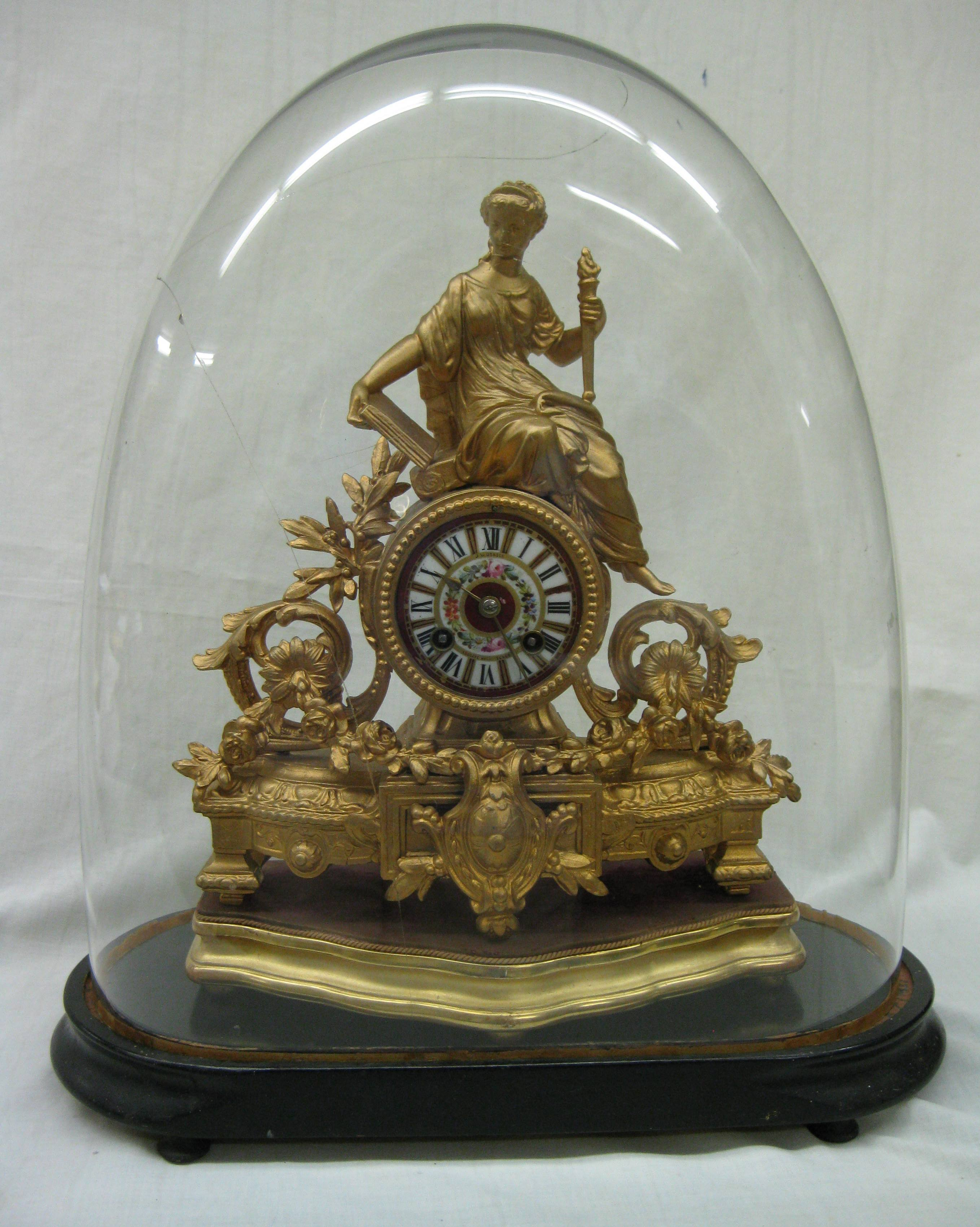 19th century